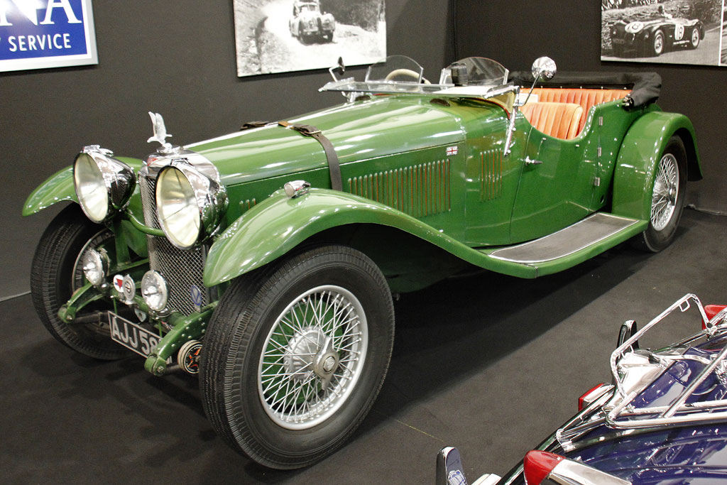 1933 Alvis Speed 20 SA_IMG_2773